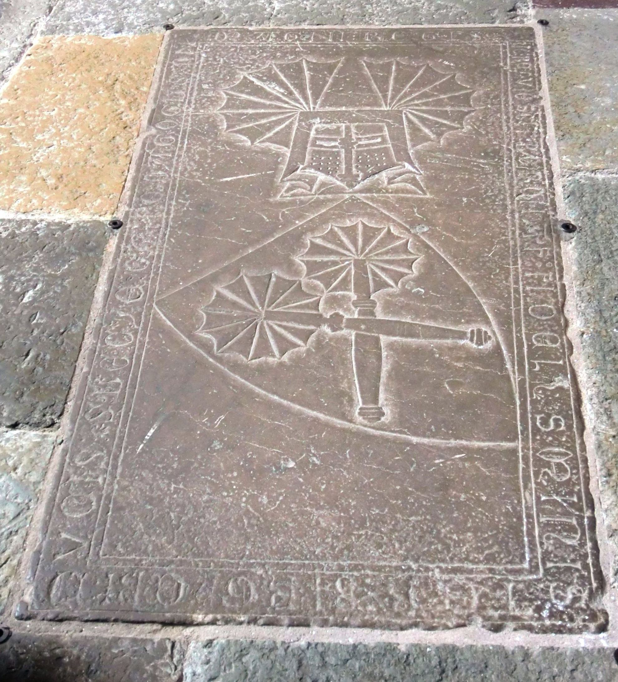 Ledgerstone over the grave of Björn Näf, knight and member of the Privy Council of Sweden in the late 13th century. The grave, from early 14th century, is located in the church of Varnhem Monastery, Västergötland, Sweden. The inscription reads in latin: "Fidelis minister Birgheri ducis Sueciae et pedagogus domini Magni regis" with translation "Faithful councillor to Birger, earl of Sweden, and teacher for king Magnus".